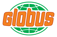 This is a Logo owned by Globus Group